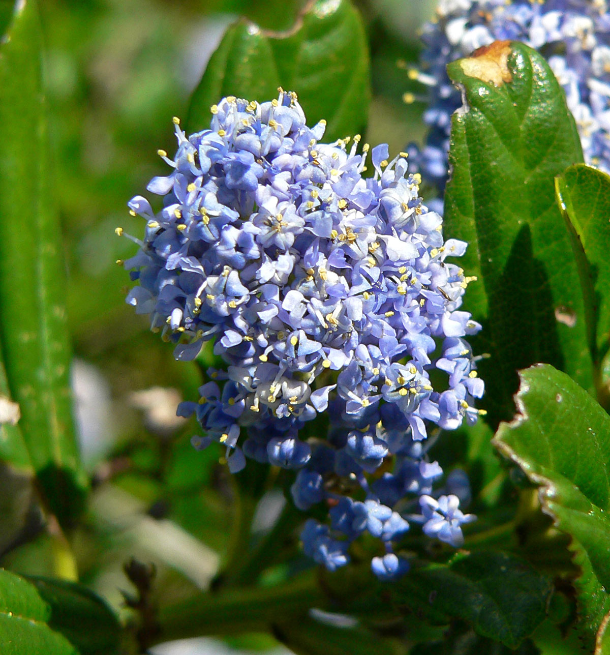 Ceanothus thyrsiflorus at the University of California Botanical Garden, Berkeley, California